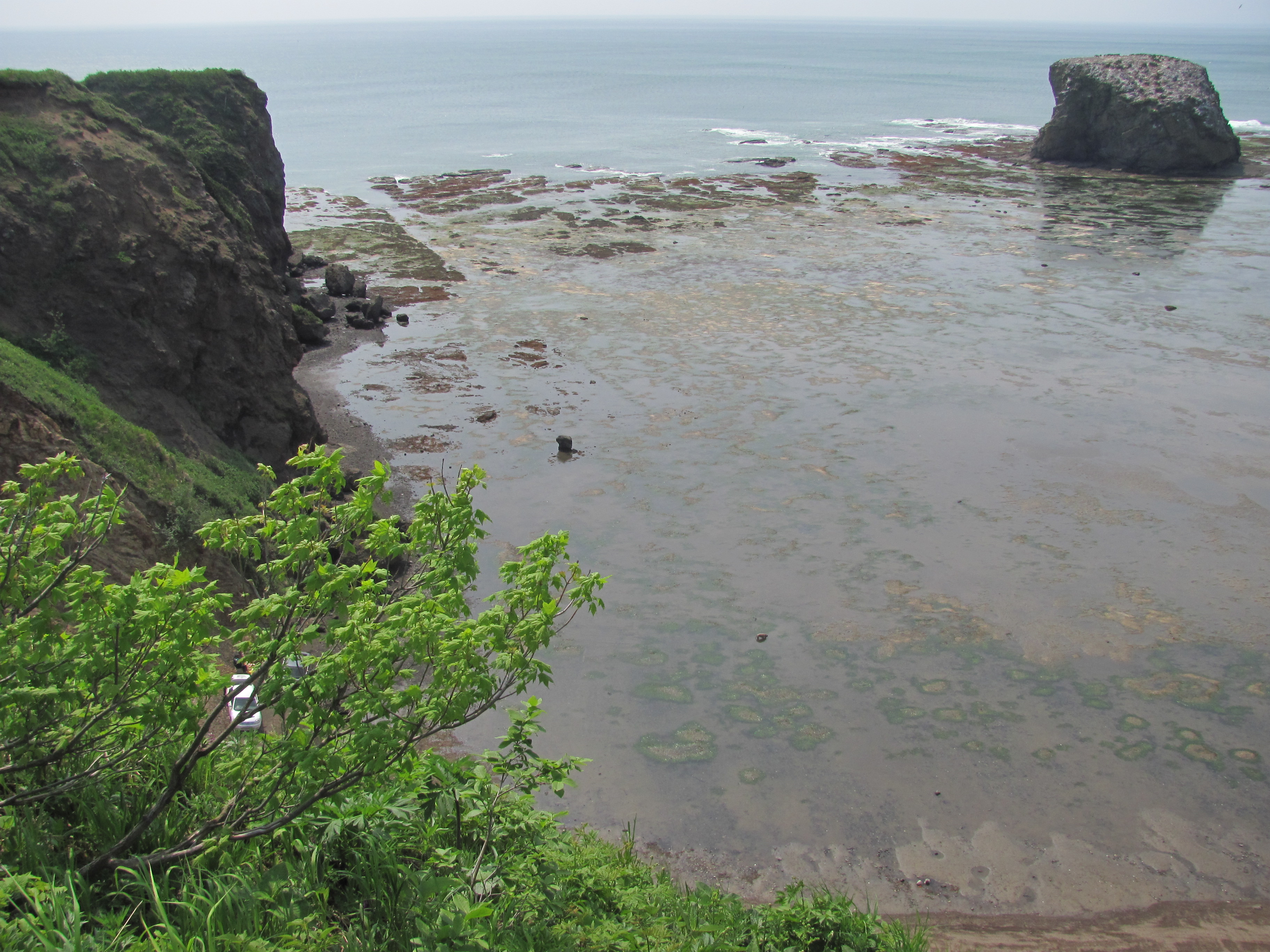 Cape Tihii and Zametny Island at a low ebb. Sakhalin coast of Sea of Okhotsk.